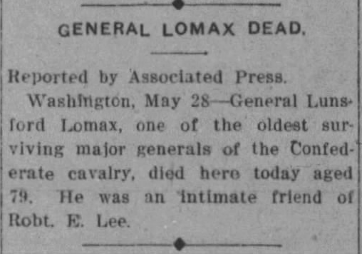 Washington, May 28 - General Lunsford Lomax, one of the oldest surviving major generals of the Confederate cavalry, died here today aged 79. He was an intimate friend of Robt. E. Lee; The Marshall Messenger, Marshall, Texas, 28 May 1913, Wednesday, Page 1